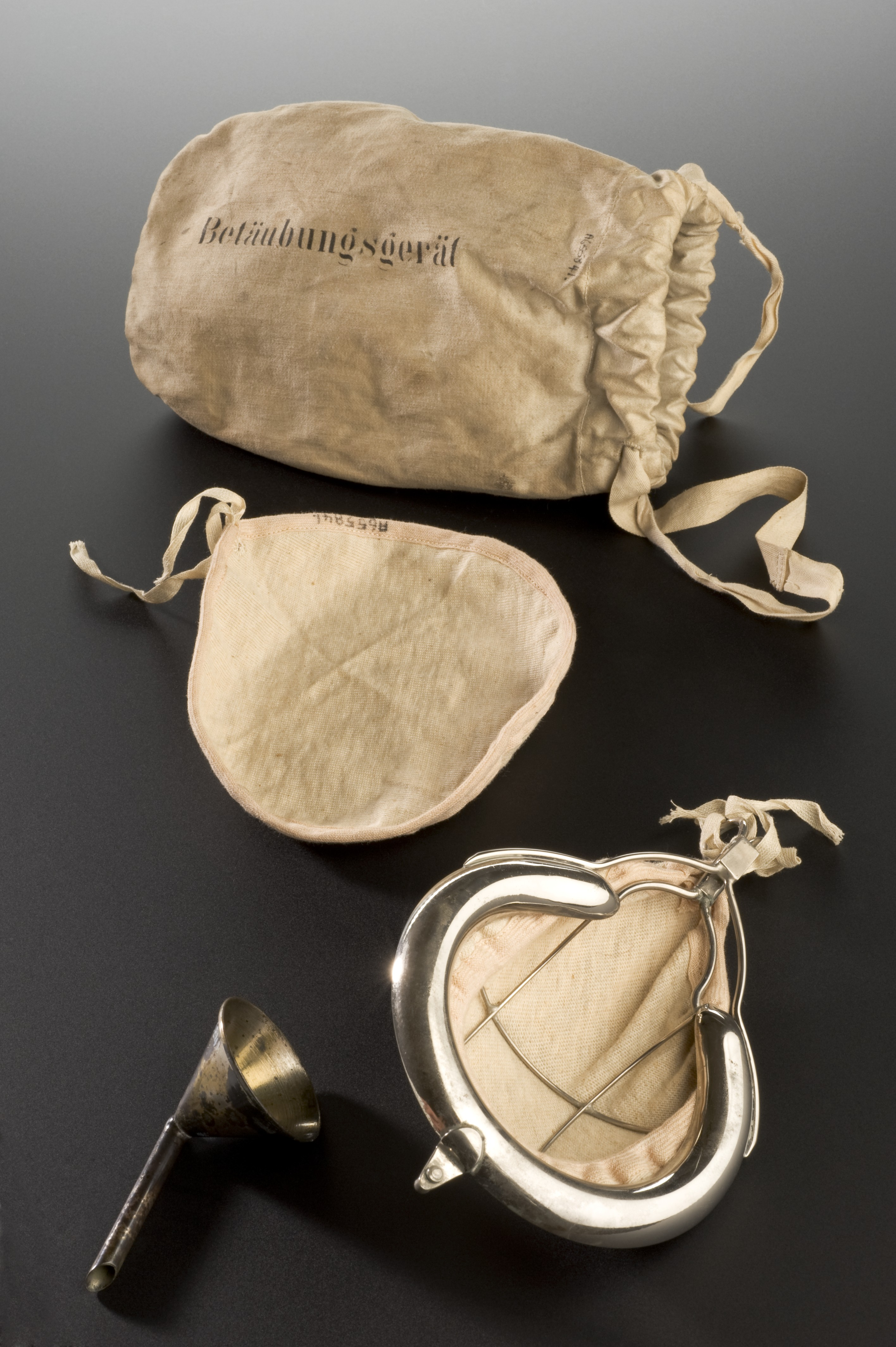 This simple anaesthetic kit would have been intended for use by the German Army during the First World War. Liquid anaesthetics such as ether would be dropped on to the cotton though the funnel and inhaled by the patient before surgery. The cotton cover is stretched over a folding nickel-plated Schimmelbusch mask. The mask was designed by Curt Schimmelbusch (1860-1895), a German pathologist and surgeon. The kit is kept in a cotton bag labelled "Betäubungsgerät" – which translates from the German as “stunning equipment”. maker: Unknown maker Place made: Germany Wellcome Images Keywords: inhaler; anaesthetic; ether